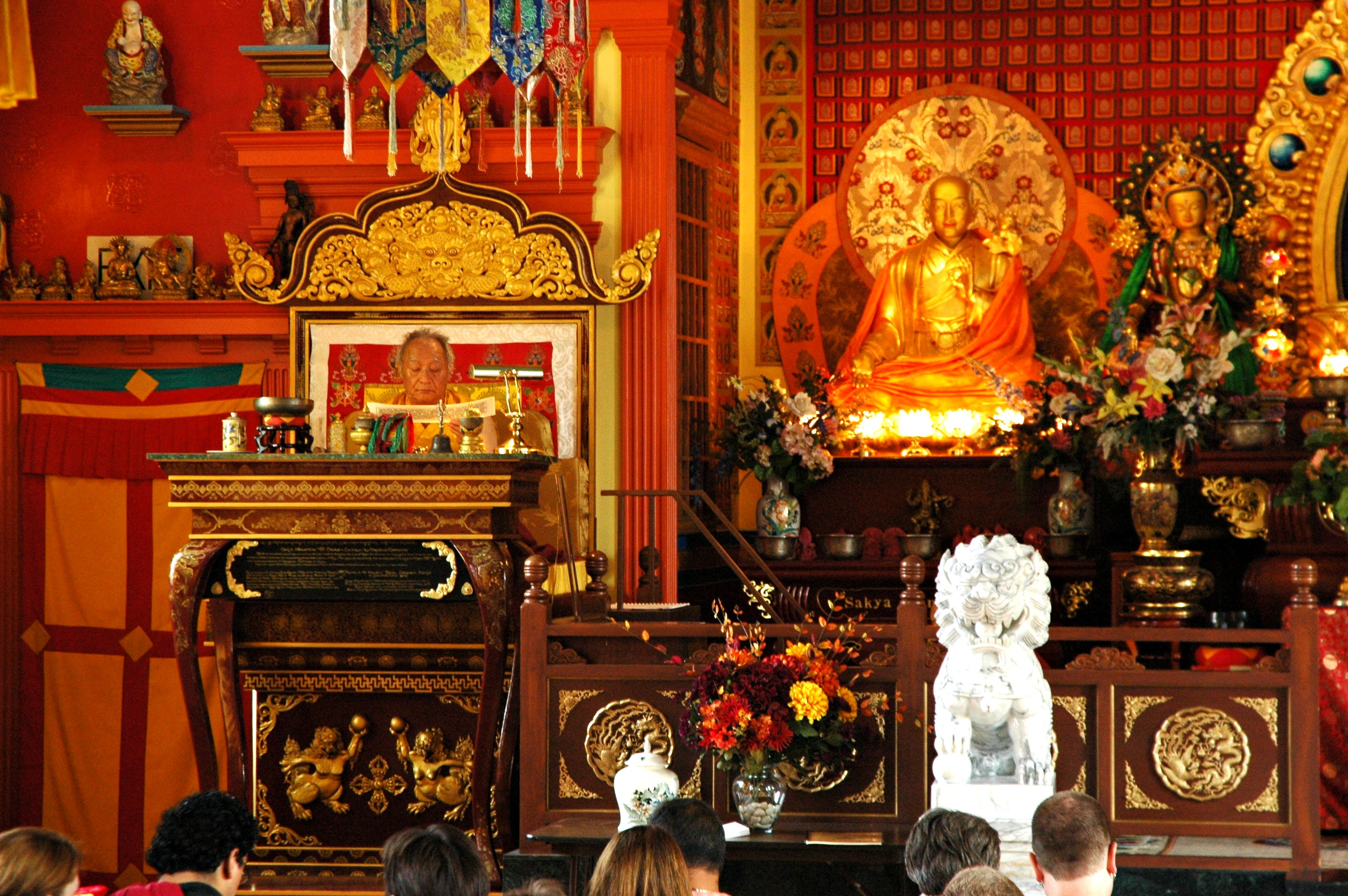 Bodhisattva of Compassion Empowerment, His Holiness Jigdal Dagchen Sakya reads the text to his students, Sakya Monastery of Tibetan Buddhism, North Seattle, Washington, USA 7943.jpg 2009?